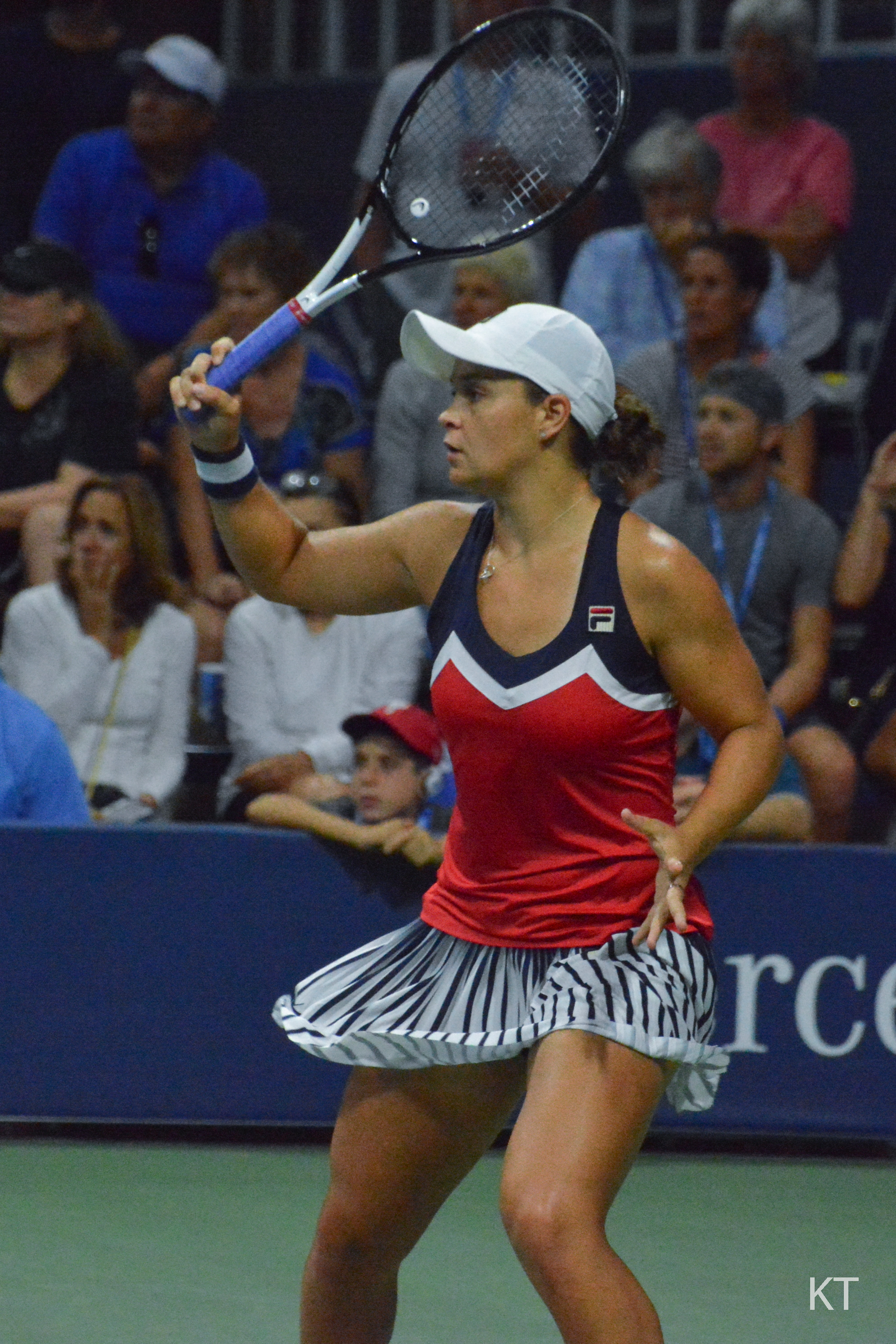 Ash Barty v Karolina Muchova. Day 5 of US Open 2018.